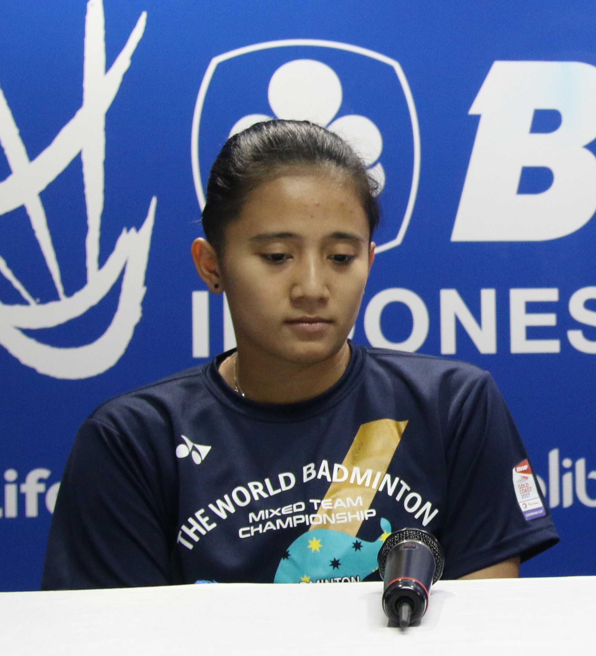 Anggia Shitta Awanda at Indonesia Open 2017 badminton tournament